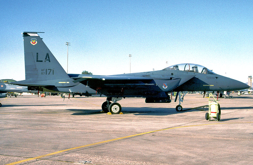 550th Tactical Fighter Training Squadron - McDonnell Douglas F-15E-44-MC Strike Eagle 87-171. Taken about 1990, notice the F-16 on the ramp behind the aircraft.